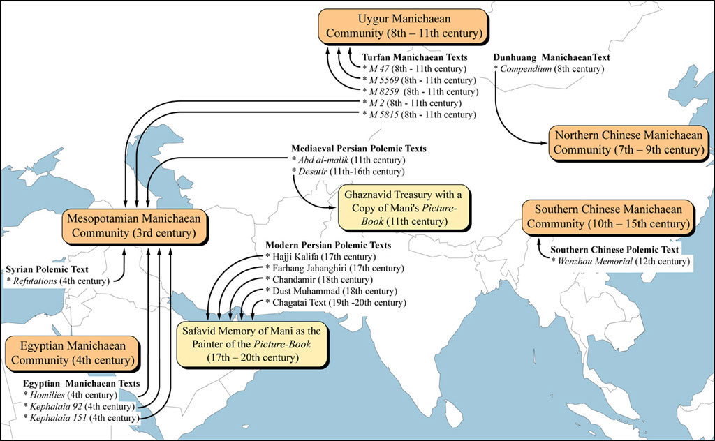 Existence of Mani's Picture-Book as documented in eighteen textual sources (Geographical distribution and dates)